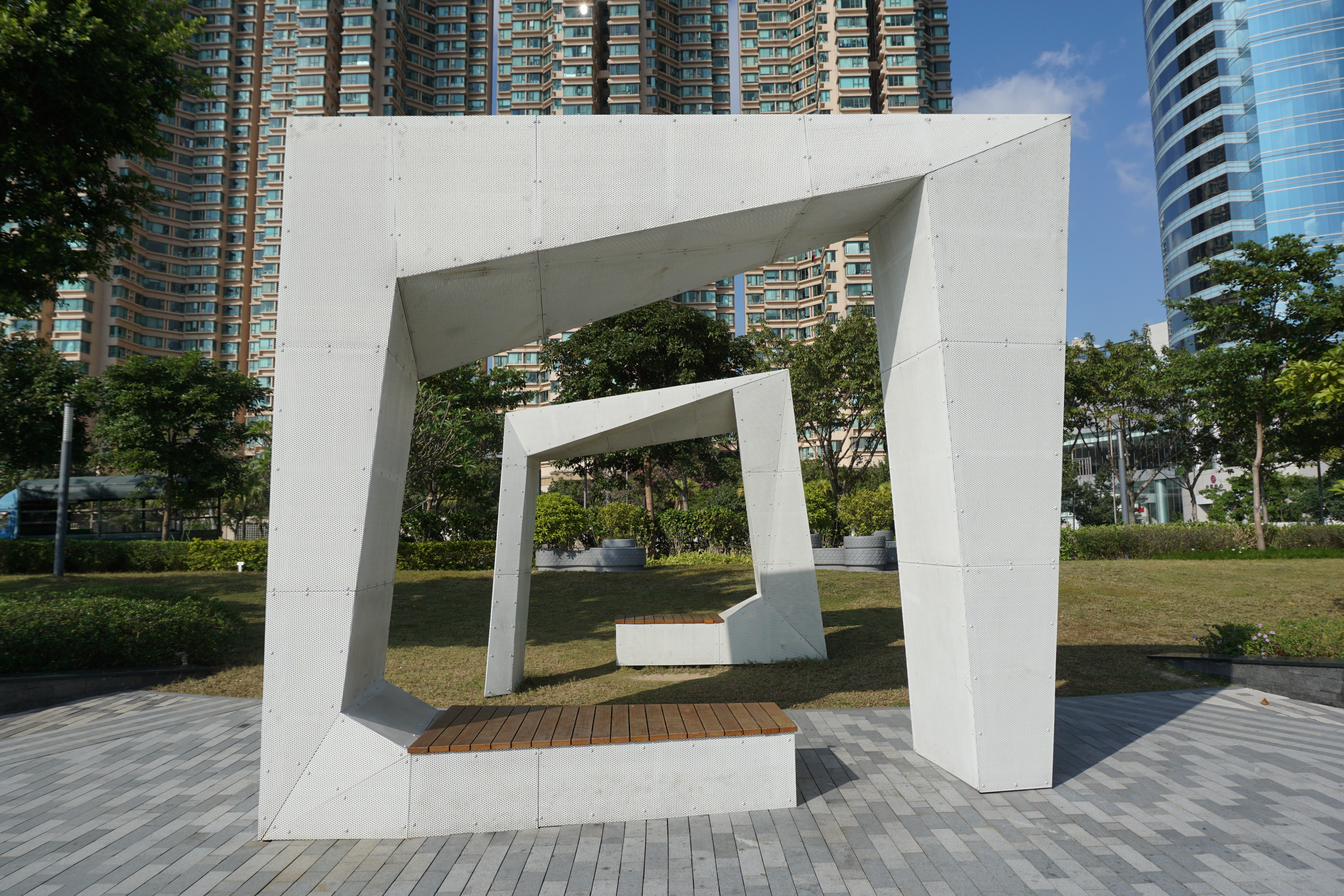 Hoi Fai Road Promenade in Tai Kok Tsui, Hong Kong.